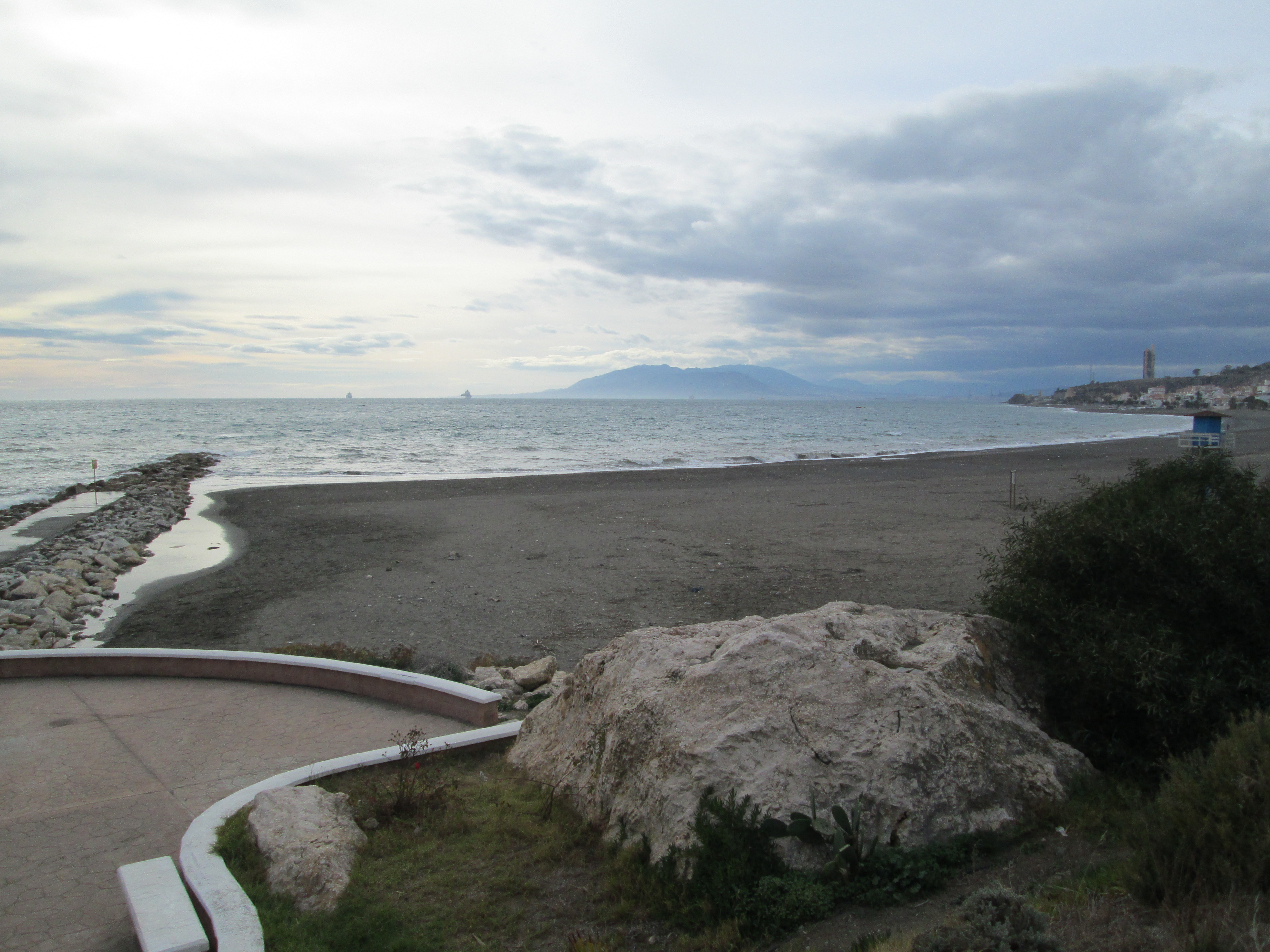 Playa de la Cala del Moral